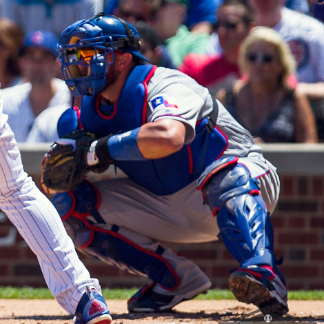 Bobby Wilson